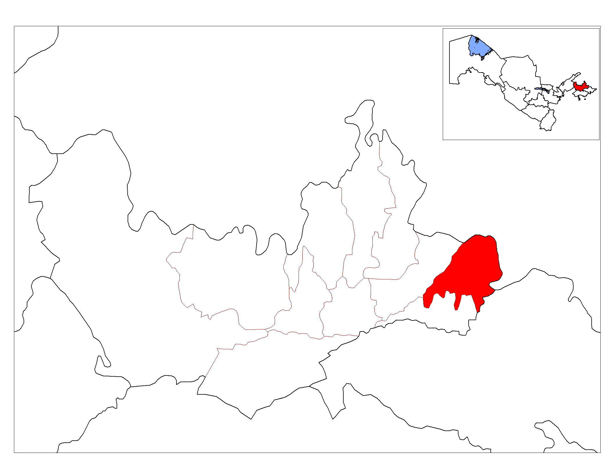 Location map of Uchqo’rg’on District in Namangan Province